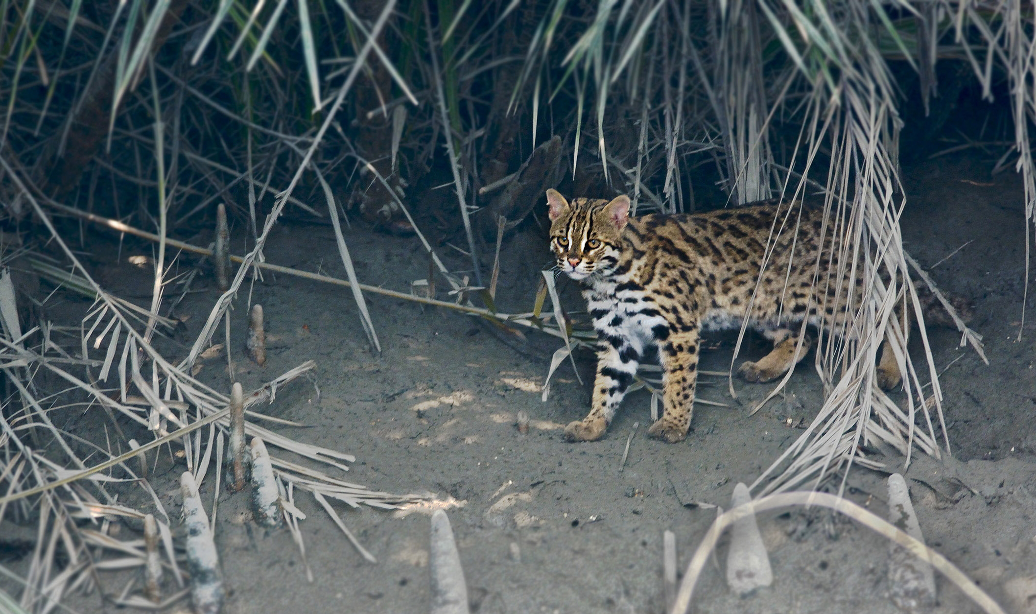 This Leopard cat image was taken in Indian part of Sundarbans in Nov13.